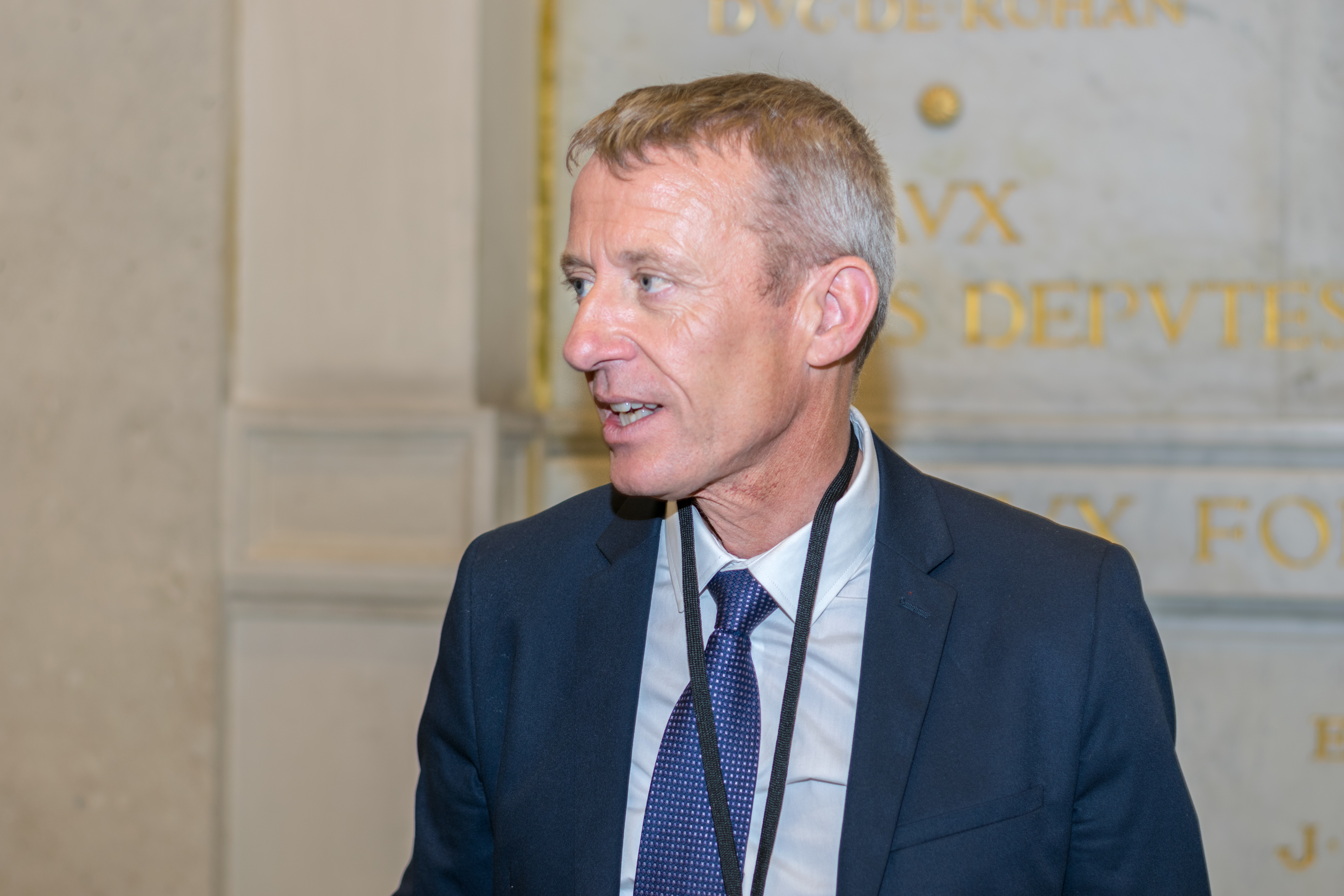 Christophe Di Pompeo in the salle des Quatres Colonnes of the Palais Bourbon (Paris, France).